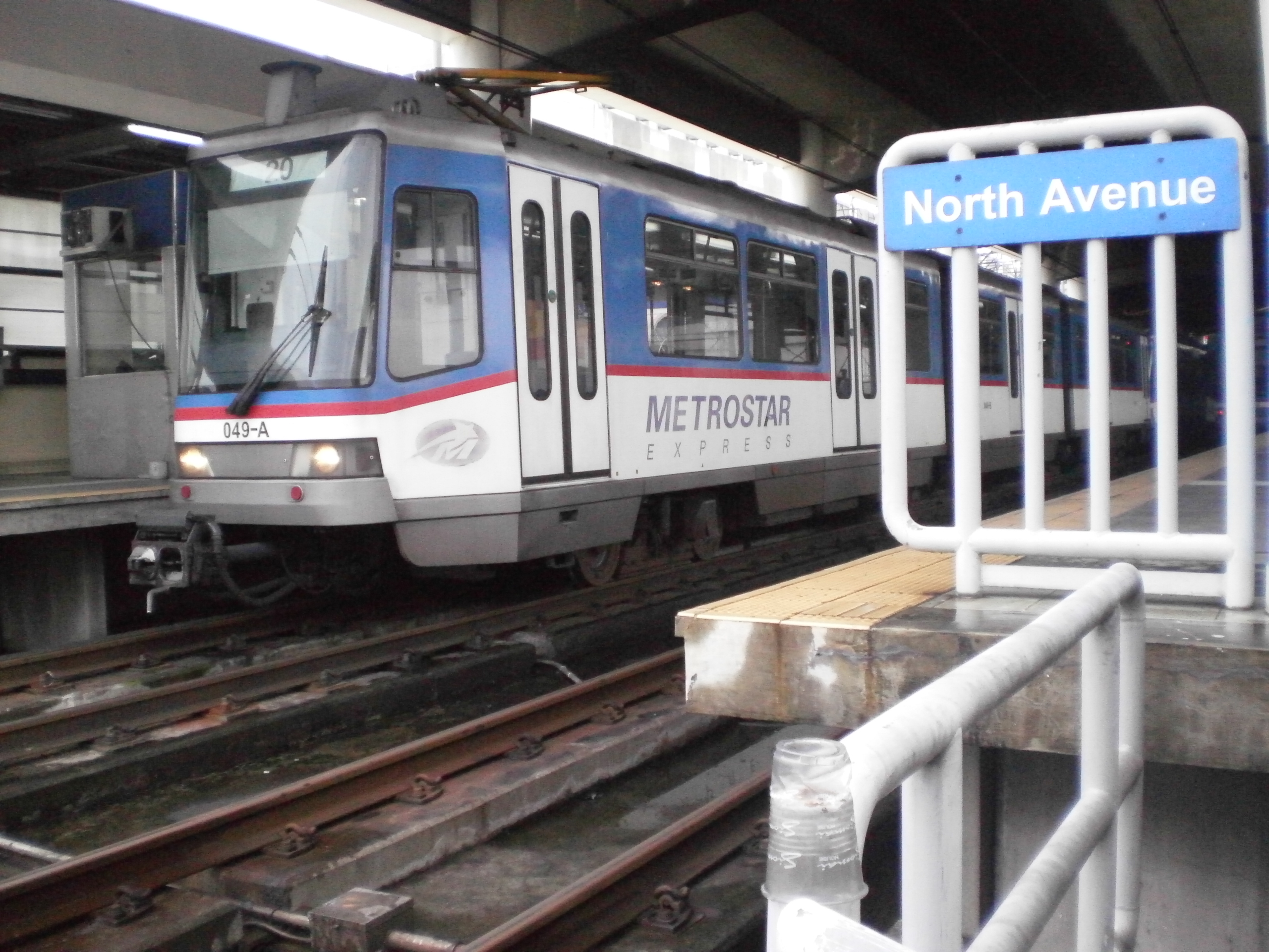 Platform area of North Avenue station of the Manila MRT Line 3 with an exiting train.